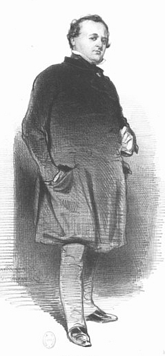 French actor, playwright and illustrator Henry Monnier (1799-1877) by Paul Gavarni (1804-1866)